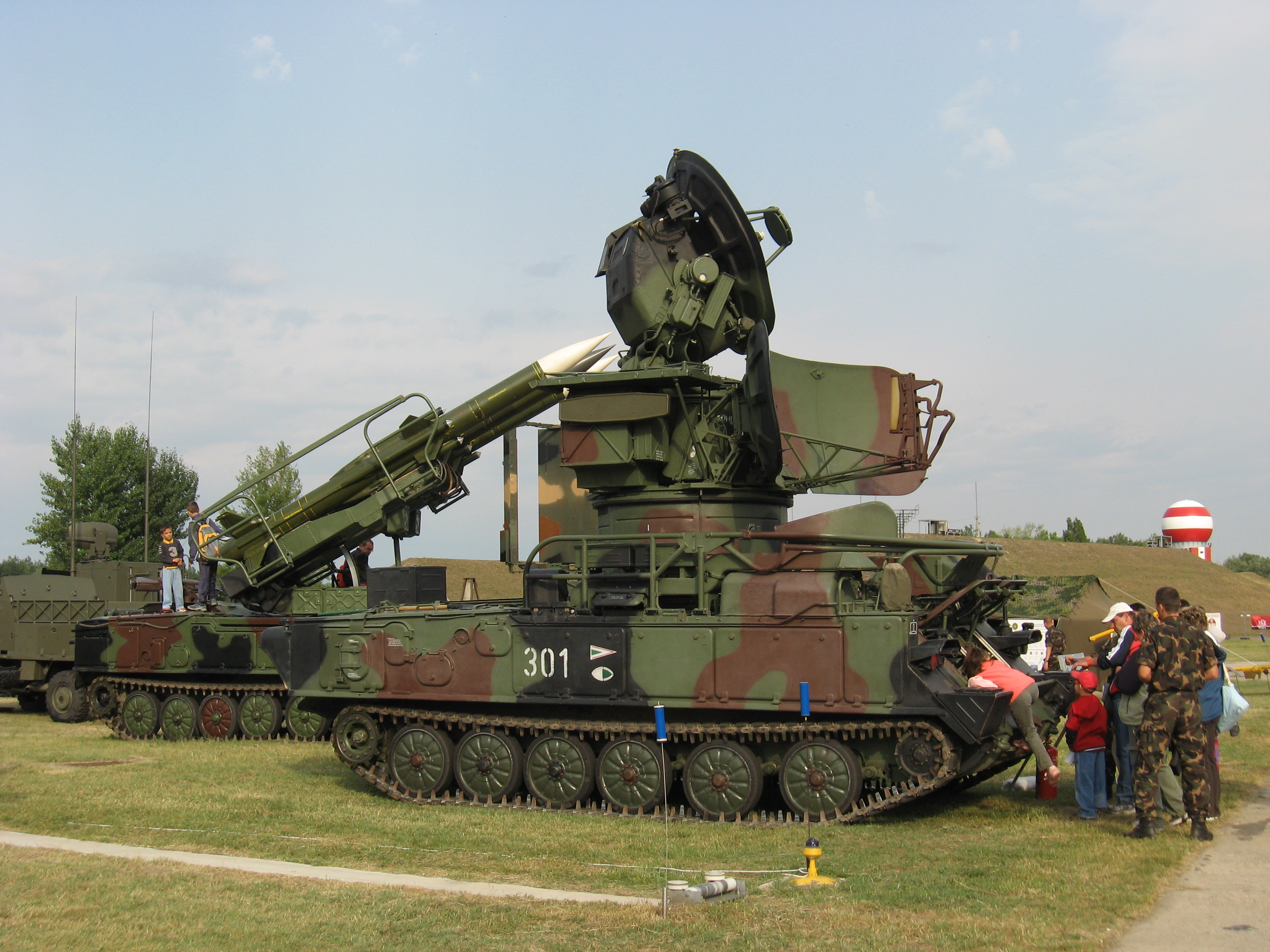 An 1S91 (Straight Flush) radar of the Hungarian Army's 2K12 Kub missile system